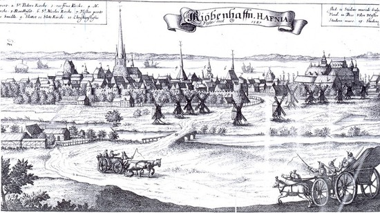 View of Copenhagen, Denmark in 1687. The carriage in the foreground with three horses is of the type that were used on the royal roads (Kongeveje).